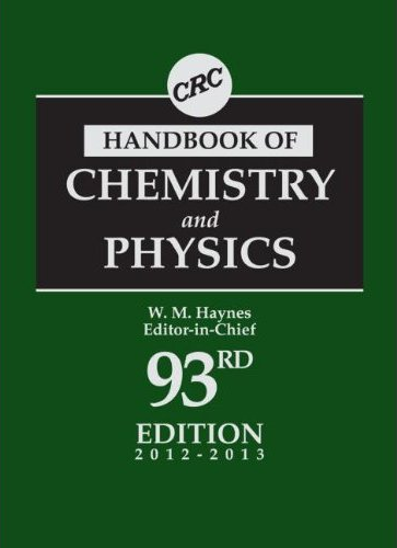 CRC Handbook of Chemistry and Physics, 93rd Edition (Title)